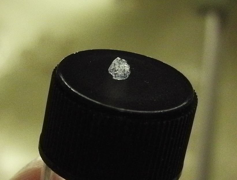 Aerogel